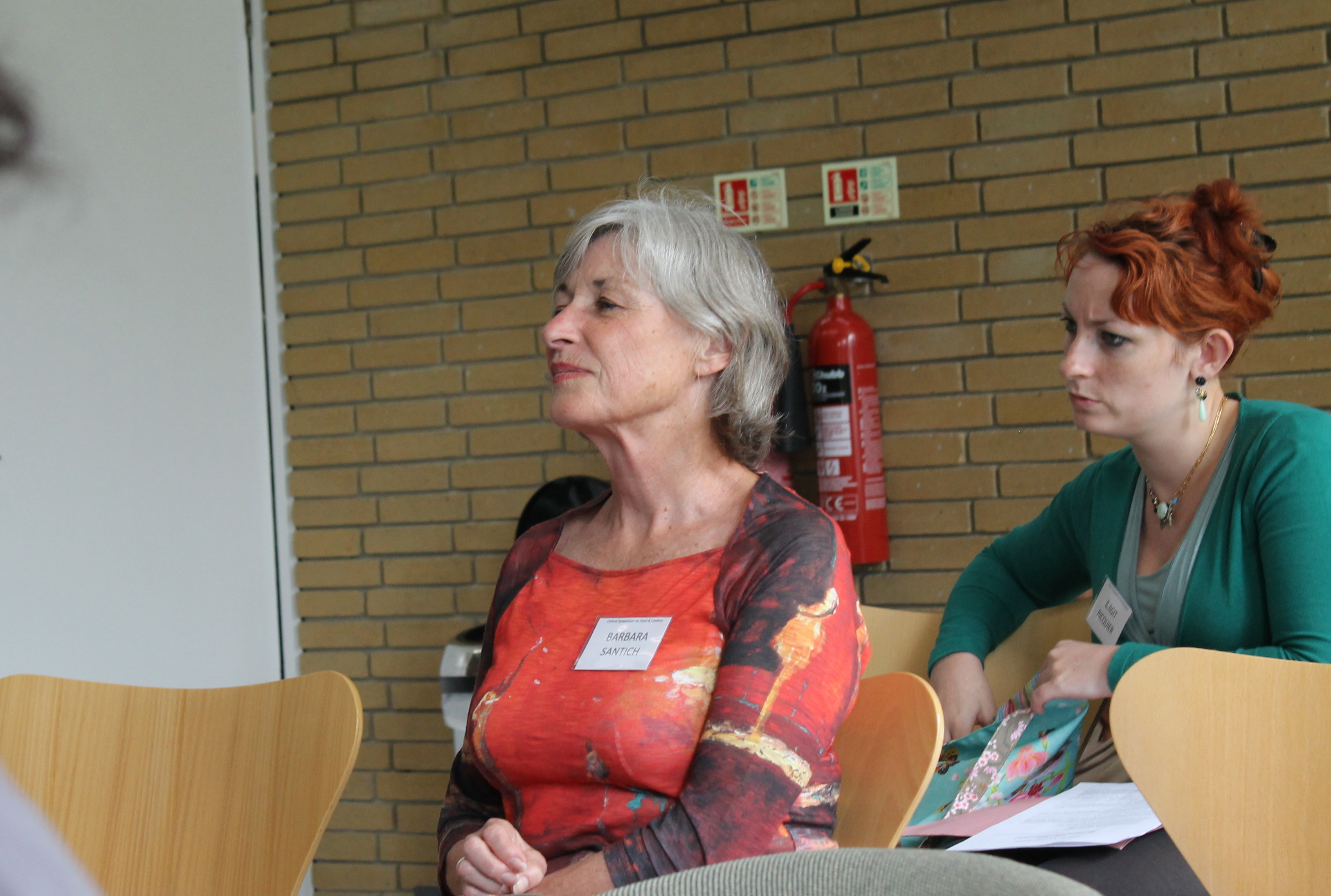 Food scholar Barbara Santich at the Oxford Symposium on Food and Cookery, 2012.